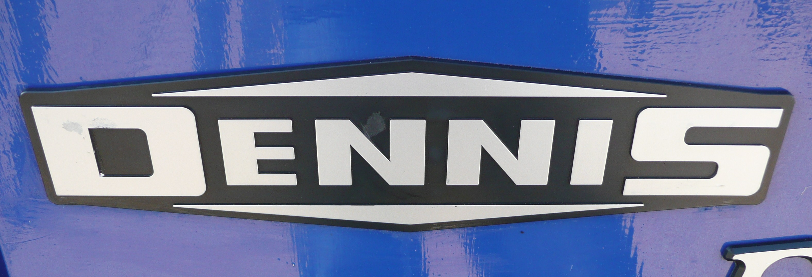 The traditional badge applied onto vehicles manufactured by Dennis. This one is on a preserved ex-Southern Vectis Dennis Dart at the Isle of Wight bus museum's 2008 running day, at Newport Quay, Newport, Isle of Wight, England.